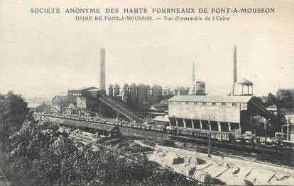 Societe Anonyme des Hauts Fourneaux de Pont-a-Mousson